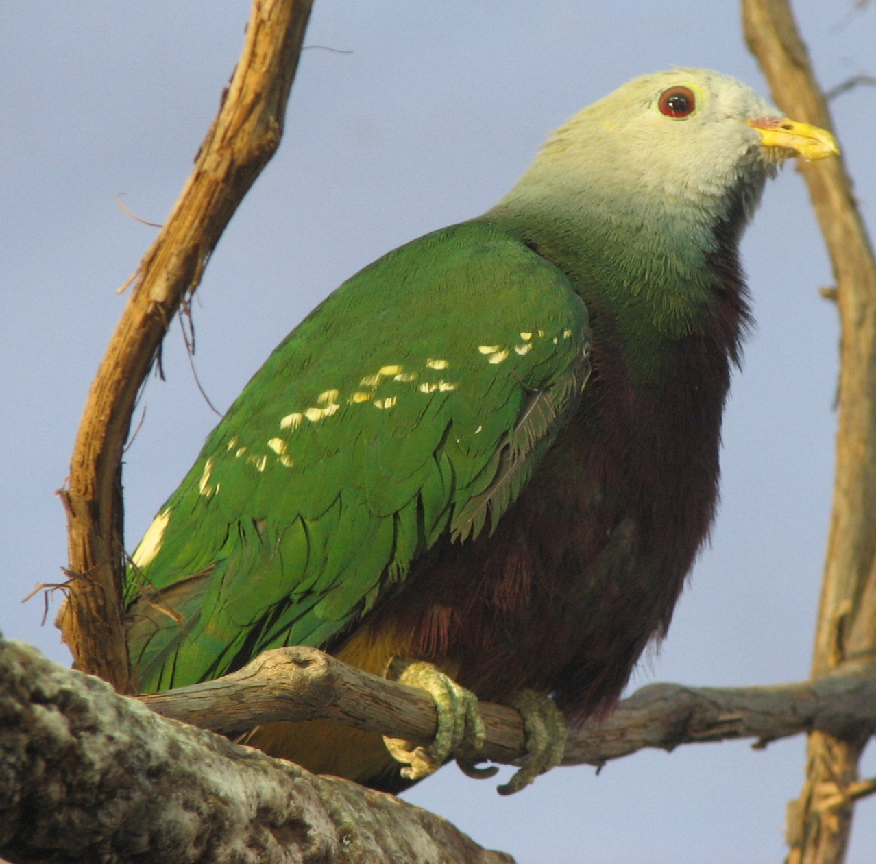 Wompoo Fruit Dove (Ptilinopus magnificus)